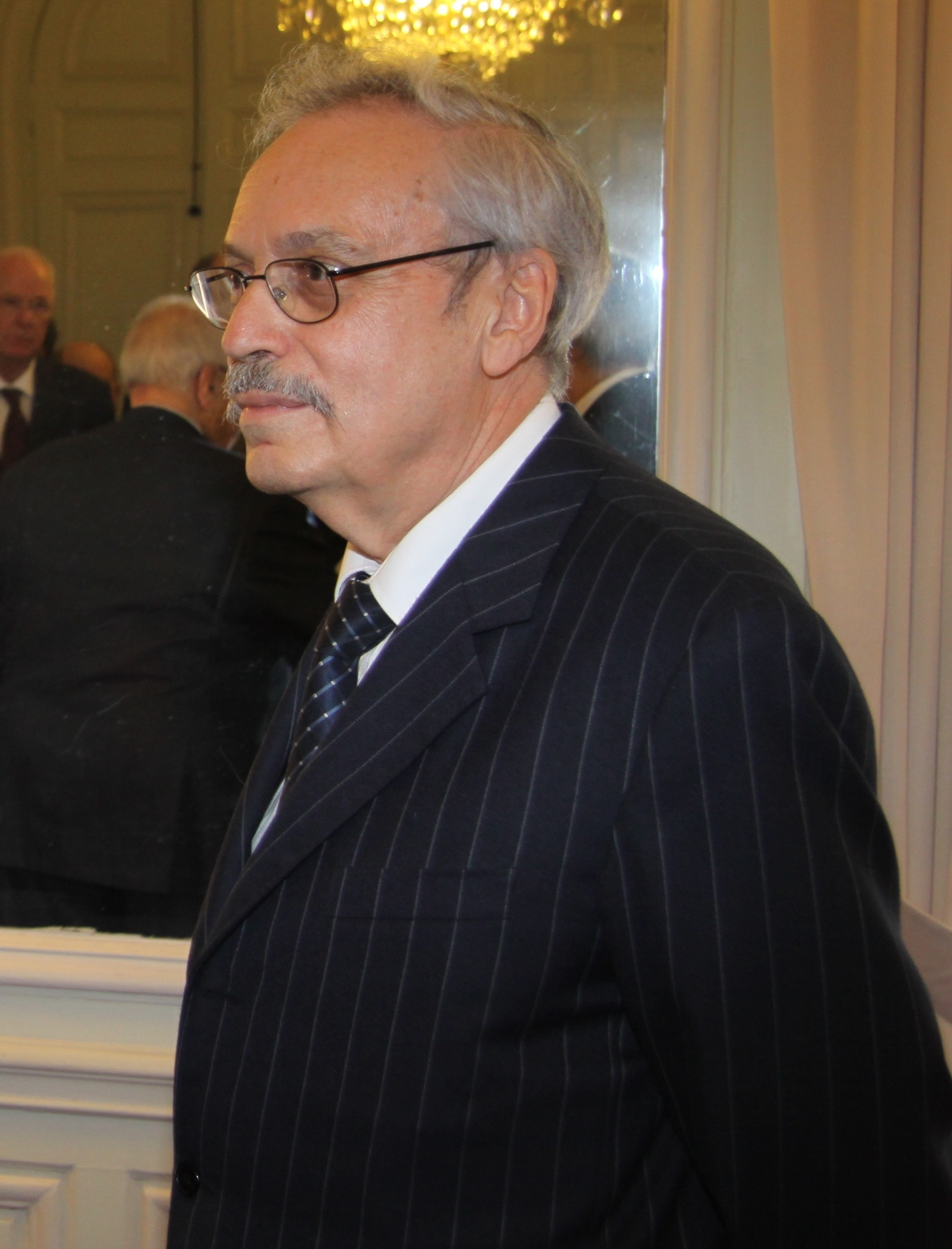 Second Picture of Jean Murat